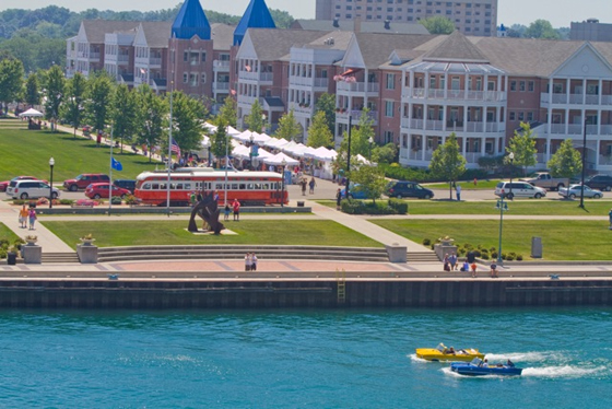 Kenosha, Wisconsin Lakefront